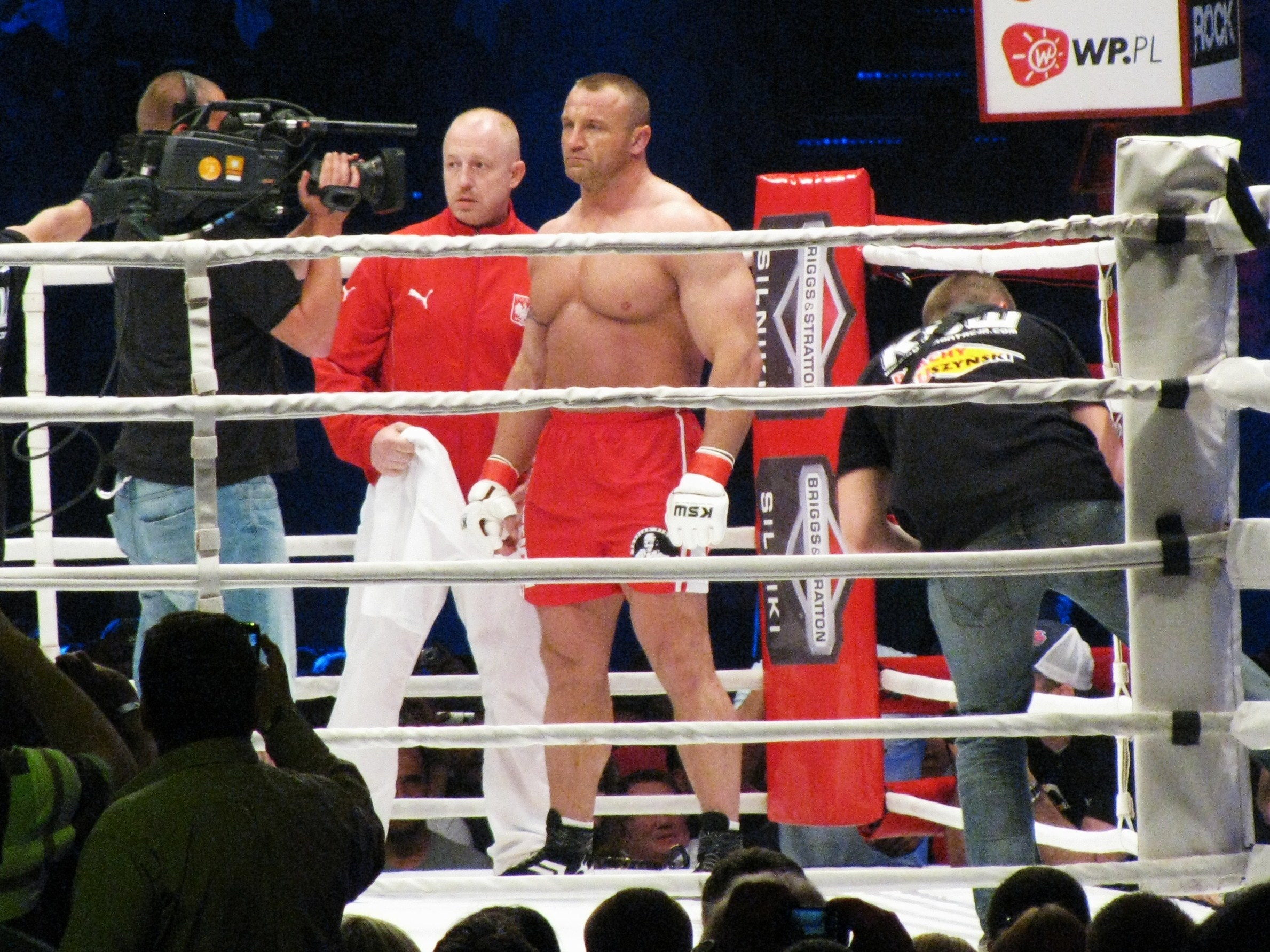 Mariusz Pudzianowski as a mixed martial artist (KSW XVI).